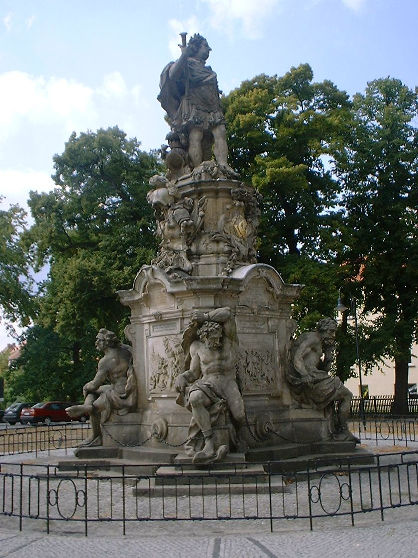 Monument to Friedrich Wilhelm I of Brandenburg in Rathenow in Brandenburg, Germany, sculpted by Johann Georg Glume (the Elder) after a model by Barthelémy Damart (Barthlomé Damart)